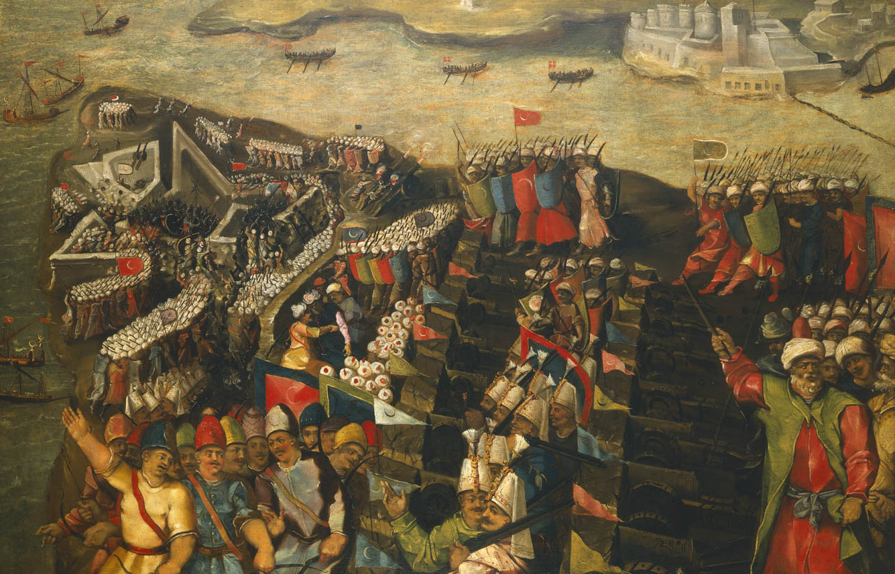 The Siege of Malta: Capture of St Elmo, 23 June 1565 This is the third of eight pictures commemorating the Siege of Malta in 1565. It portrays the capture of Fort St Elmo on 23 June. Fort St Elmo was captured after a siege lasting 29 days. Inside the fort, the Turks found 27 cannons which are portrayed here adorned with the Turkish flag and pointing at the Christian Fort St Angelo. The painting takes the viewer's eye over the battle to the fort and sea beyond, with a view from Mount Sceberras overlooking the Christian forts of St Elmo on the left and Birgu in the background to the right. The Turks pour through the breached walls of the castle where two parties of Knights make their last stand. The battery consists of two tiers of cannon, pointing to the left, and in the middle of the picture, on the battery, a distinguished Turk dies having been hit by a cannon ball from Fort St Angelo. Beyond, two cannons fire at Birgu. The whole area is crowded with troops moving in tight formation. In the left foreground is a group of archers, and in the middle foreground, janissaries. Mustapha Pasha, and other Turkish leaders, Piali Pasha and Ochiali Calabrese, are positioned in the extreme foreground. The picture depicts the variety of head-dress worn by the Turkish troops. At the mouth of the harbour and to the west of St Elmo are five Turkish galleys, and rowing towards St Angelo and Birgu are three barges of the Knights, returning after their efforts to relieve St Elmo. When St Elmo fell, all inside perished, except for nine wounded Knights. See also BHC0252-BHC0259. 'The Siege of Malta: Capture of St Elmo, 23 June 1565'